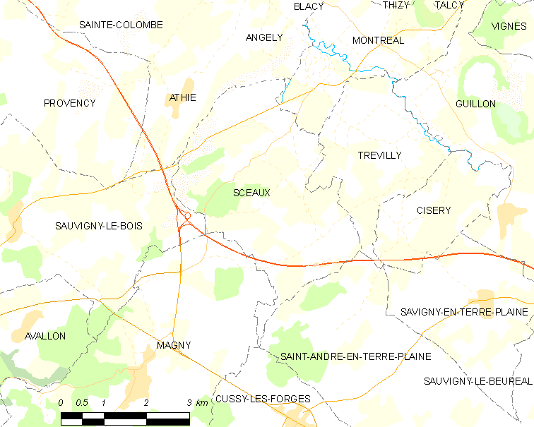 Map of French municipality Sceaux